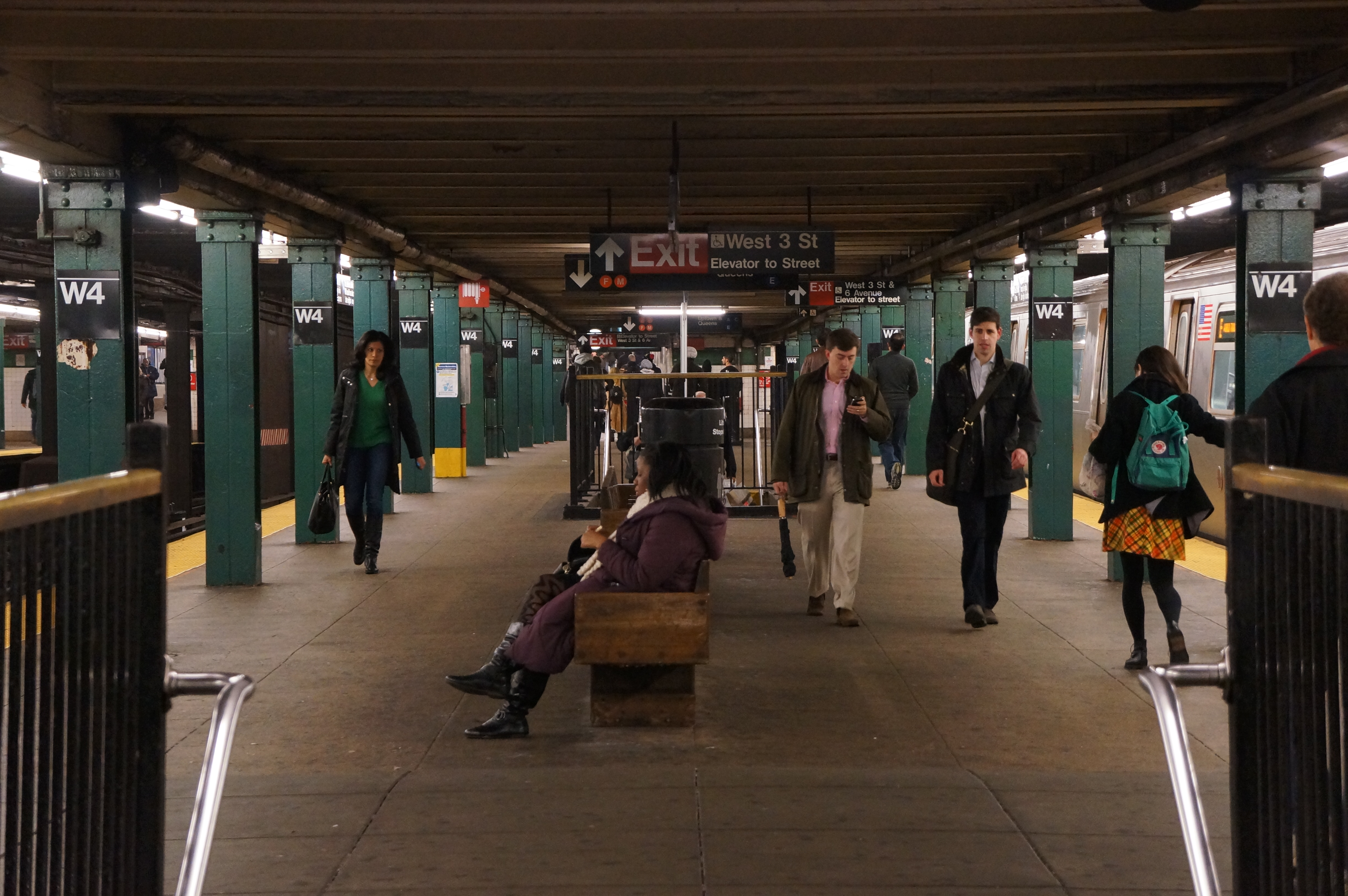 The upper level southbound platform at W 4 St-Wash Sq.